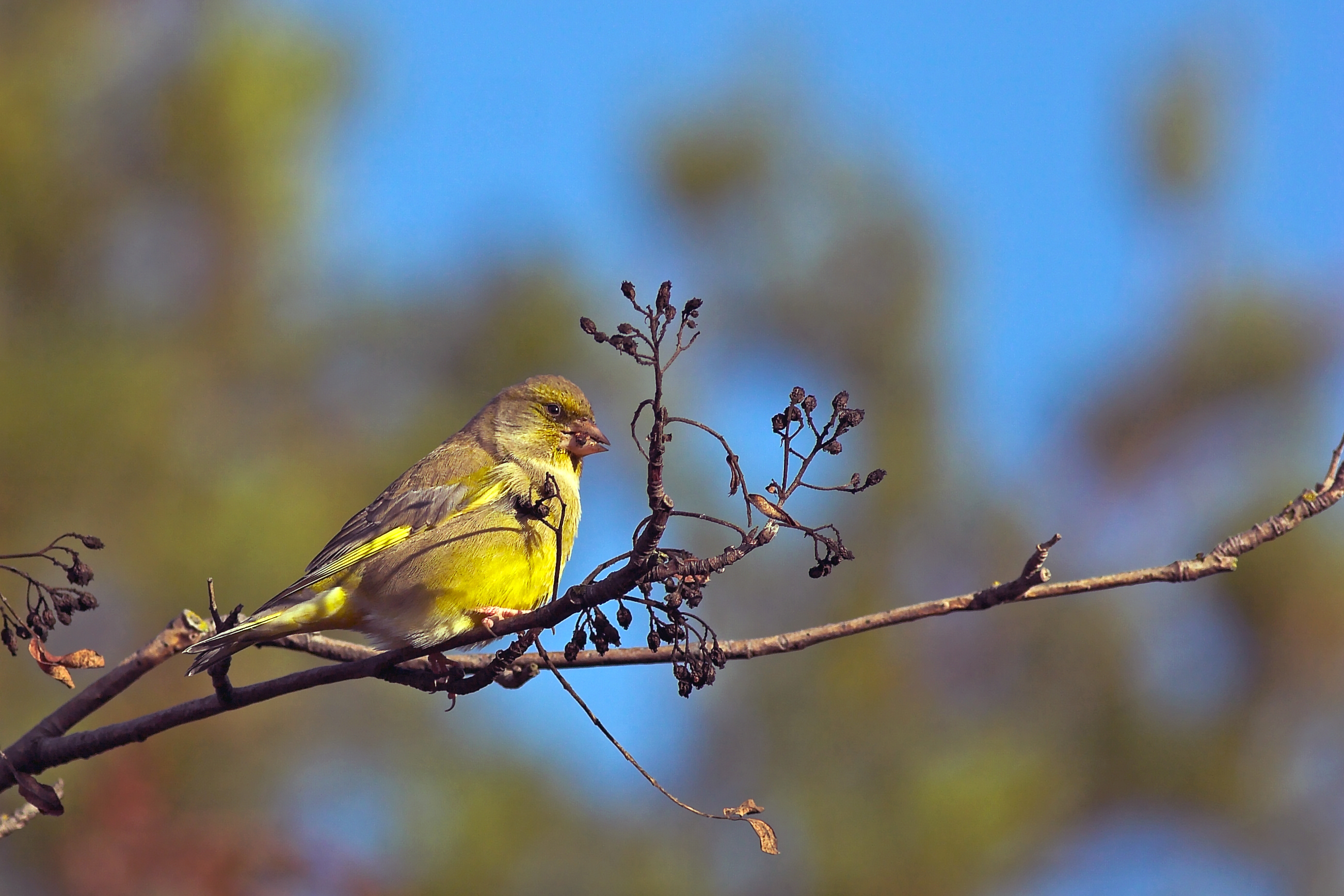 European Greenfinch in harsh autumn morning light, eating the last berries of autumn. Photographed at Helsinki, Finland,(N):20543,(E):49048